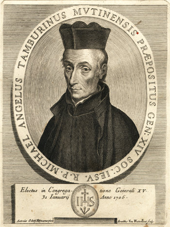 The Jesuit Michelangelo Tamburini (1648-1730)